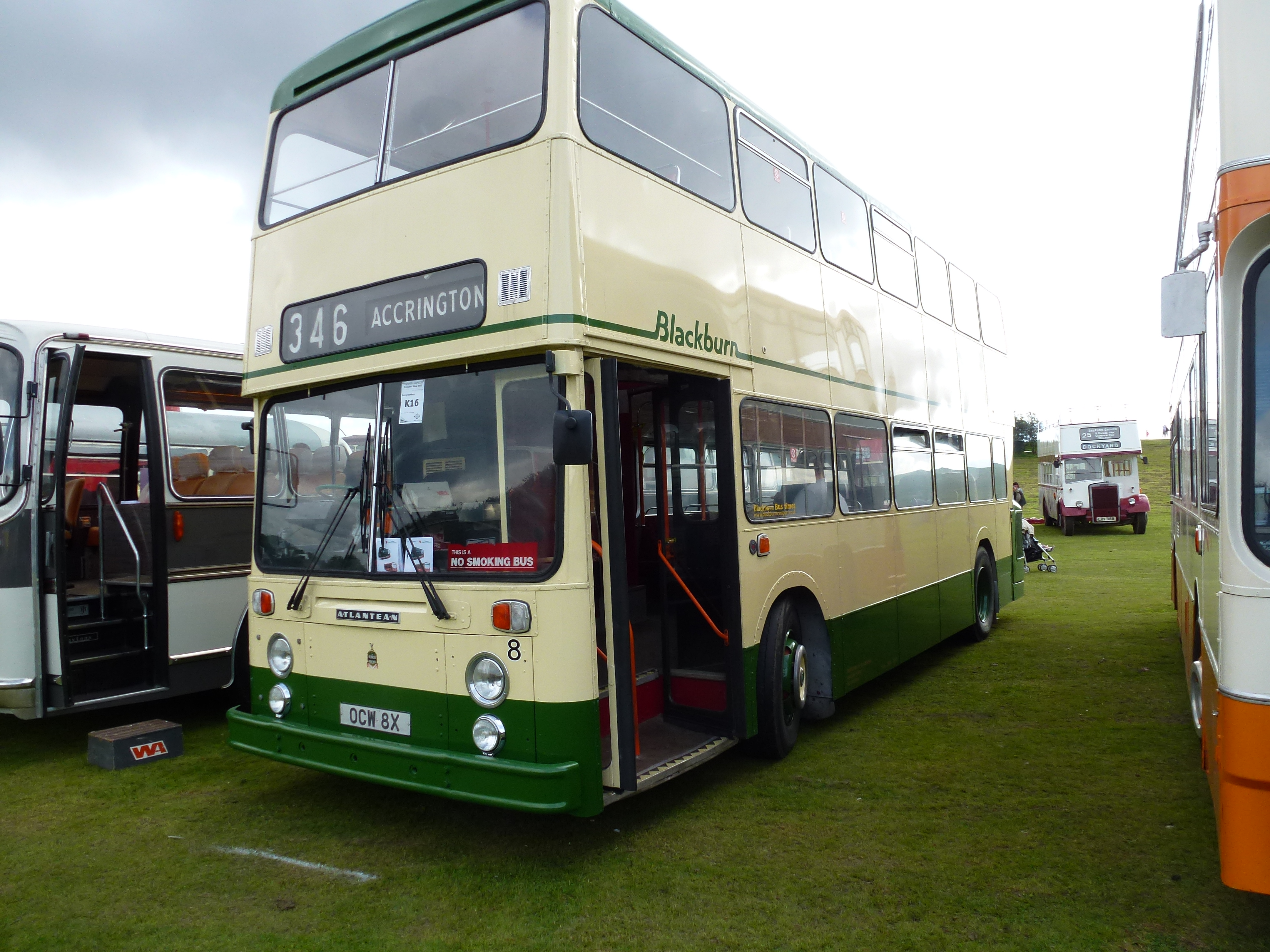 East Lancs-bodied Leyland Atlantean, new in March 1982 to Blackburn. Seen at Heaton Park during this year's Trans Lancs Rally event